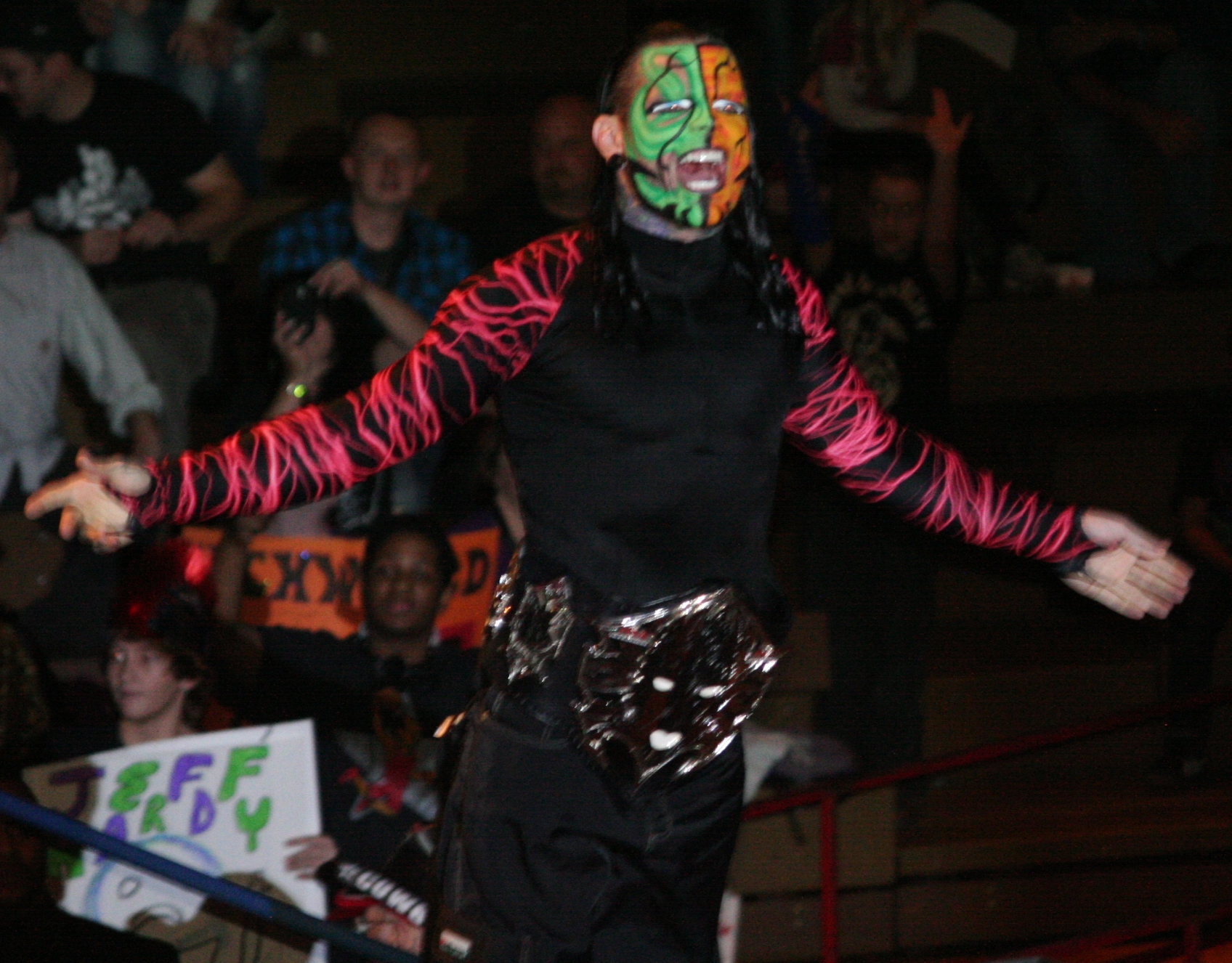 Jeff Hardy with his custom belt